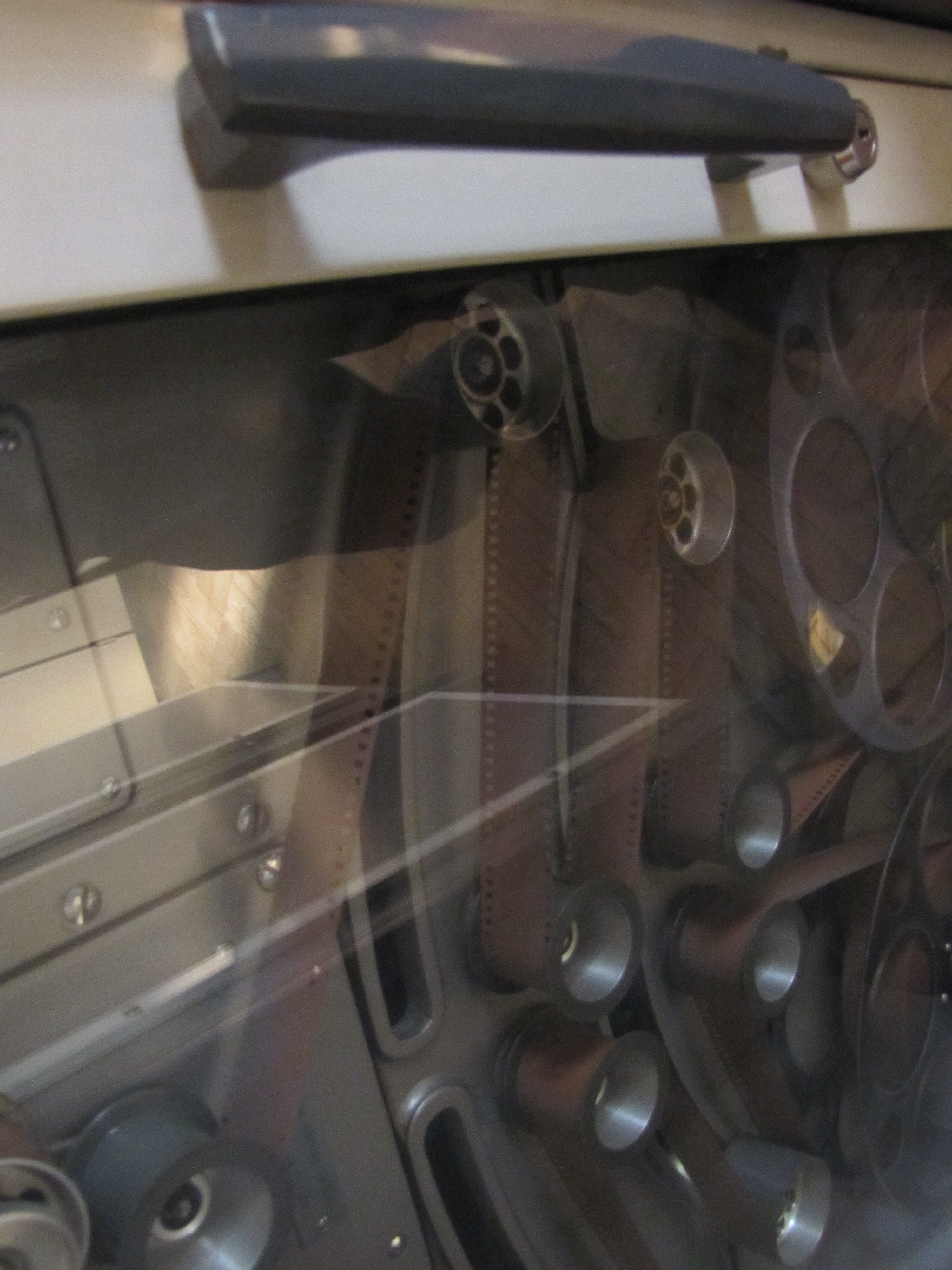 Photographic film as a perforated memory tape